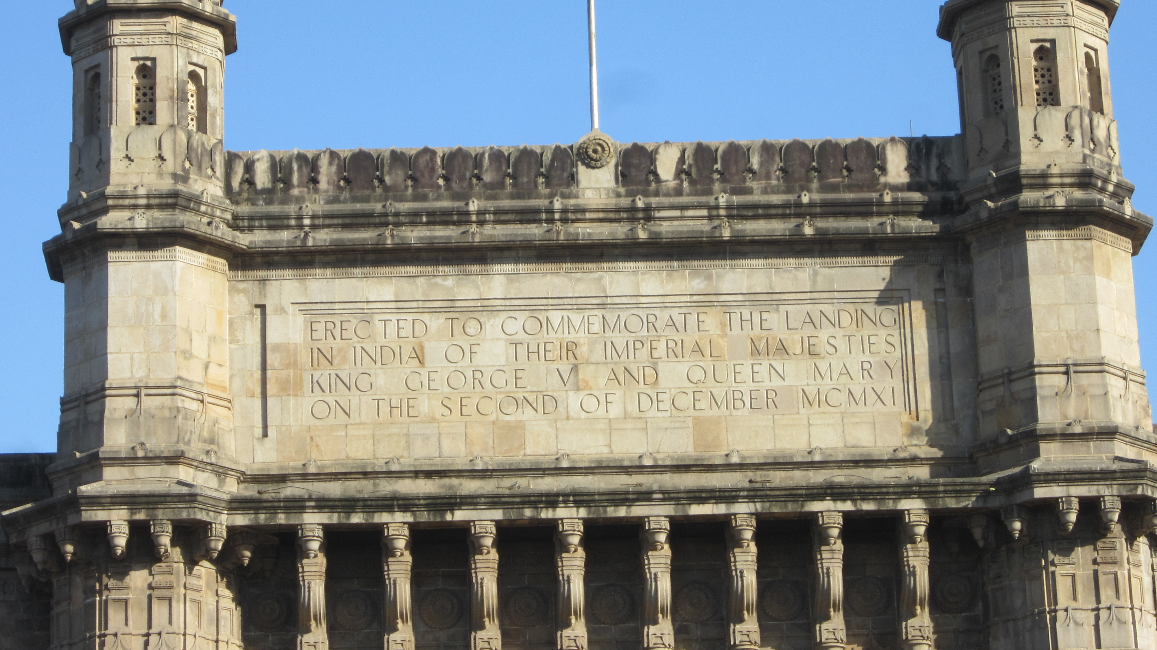 The inscriptions on Gateway of India. This structure was built to commemorate the visit of King George V and Queen Mary to Mumbai